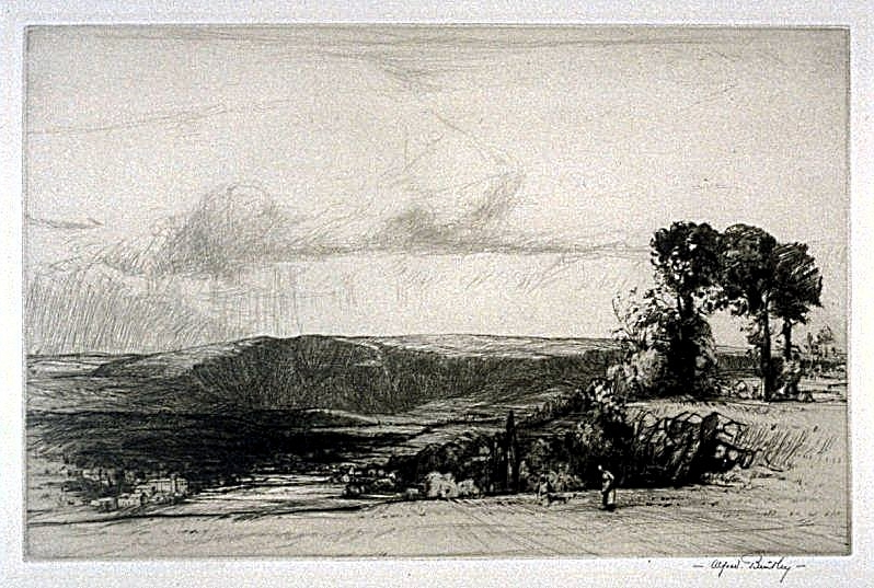 A Hail Storm. Etching (hand-colored). 13.4 x 18.3 cm (image). Four men brace themeslves against a heavy storm; a stout man in front, two men on foot behind, and a man on horseback holding his nose; behind a bush to the left a crouching man has lost his hat and wig to the wind. A different print after the drawing by Bunbury was published in 1782 by John Raphael Smith (1752–1812) DescriptionBritish painter and engraverDate of birth/death 1752 2 March 1812 Location of birth/death Derby DoncasterWork location Europe; London (1767–) Authority control : Q2470482 VIAF: 79202309 ISNI: 0000 0001 1678 3773 ULAN: 500116497 LCCN: n83013596 NLA: 36339895 WorldCat creator QS:P170,Q2470482 Fine Arts Museums of San Francisco Native nameFine Arts Museums of San FranciscoLocationSan Francisco, California, United States of AmericaEstablished1972 (from previously existing museums)Web pagefamsf.orgAuthority control : Q1416890 VIAF: 150849489 ISNI: 0000 0001 2184 7161 ULAN: 500308548 LCCN: n80051191 NLA: 35084547 WorldCat institution QS:P195,Q1416890